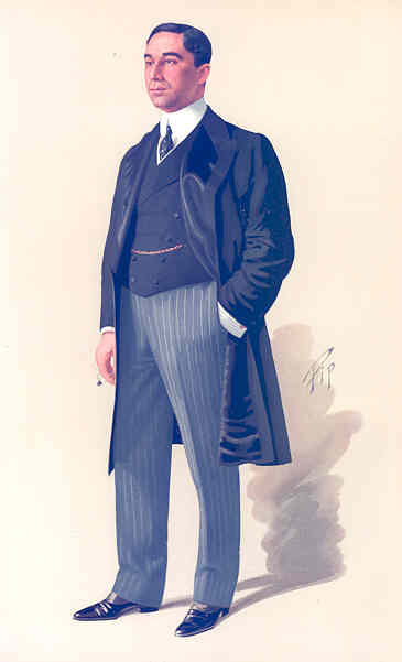 Caricature of Raphael Emanuel Belilios. Caption read "Billy". Accompanying biography read "With a varied and complete mental outfit, arranged with legal precision and orderliness, Mr. Belilios gives the impression of being untroubled with doubts and uncertainties. He knows his subjects as a good scholar knows a geometrical proposition, logically and absolutely, but with none of the nuances and half-lights which trouble less gifted men". Raphael Emanuel Belilios (or "Billy"), was a barrister in England, son of Emanuel Raphael Belilios the Hong Kong opium dealer and businessman. He was admitted to the Middle Temple in 1900 and called to the Bar in 1903. He occupied chambers at Middle Temple from 1904 to 1922.